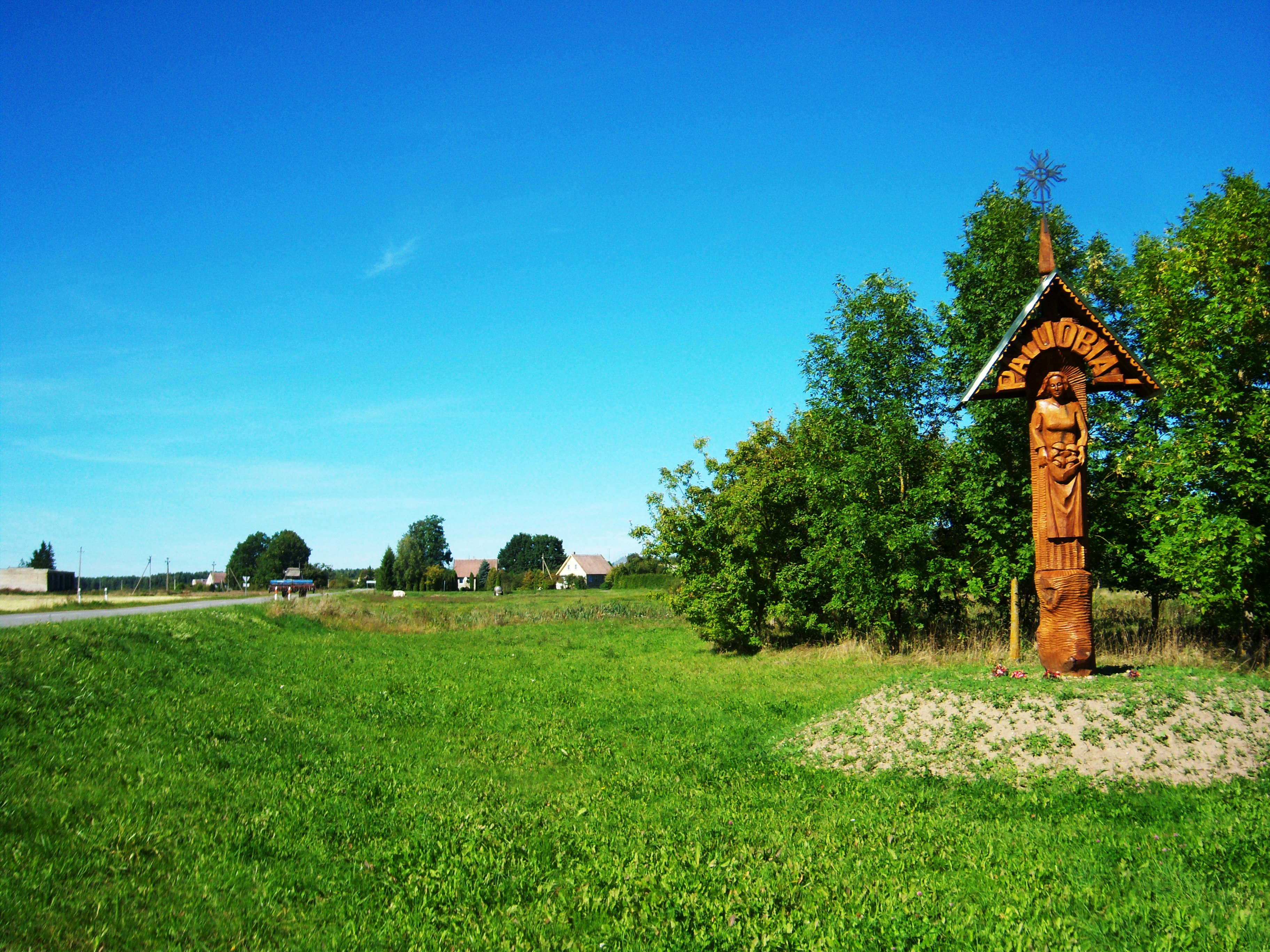 Paluobiai, Šakiai District, Lithuania